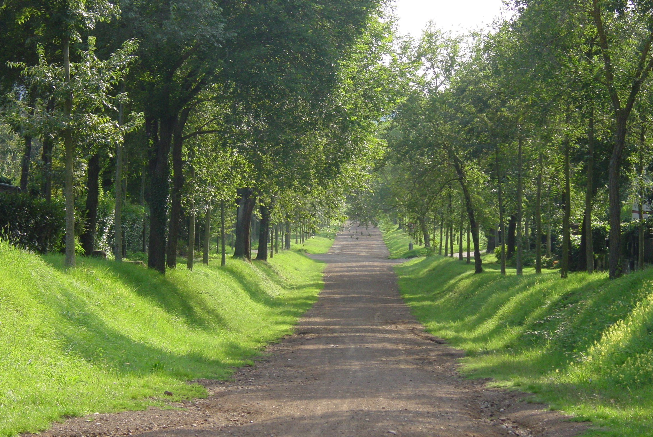 Picture of a path in the "Olmate" in Oriolo Romano, Provincia di Viterbo, Italy